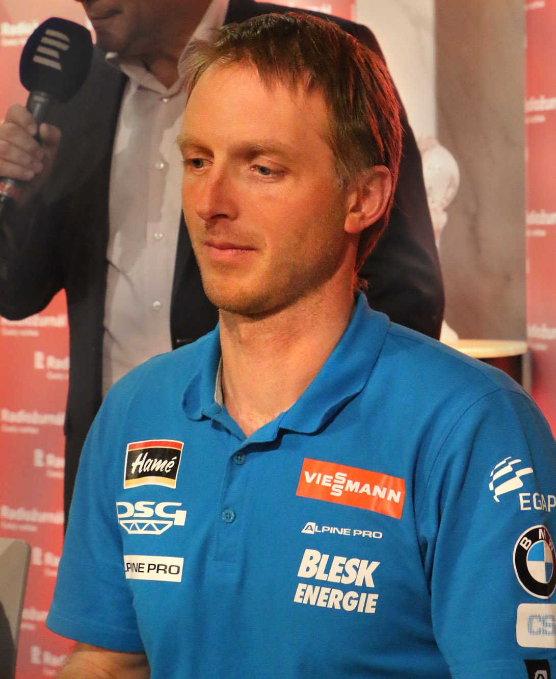 Czech biathlon manager Ondřej Rybář, 2016